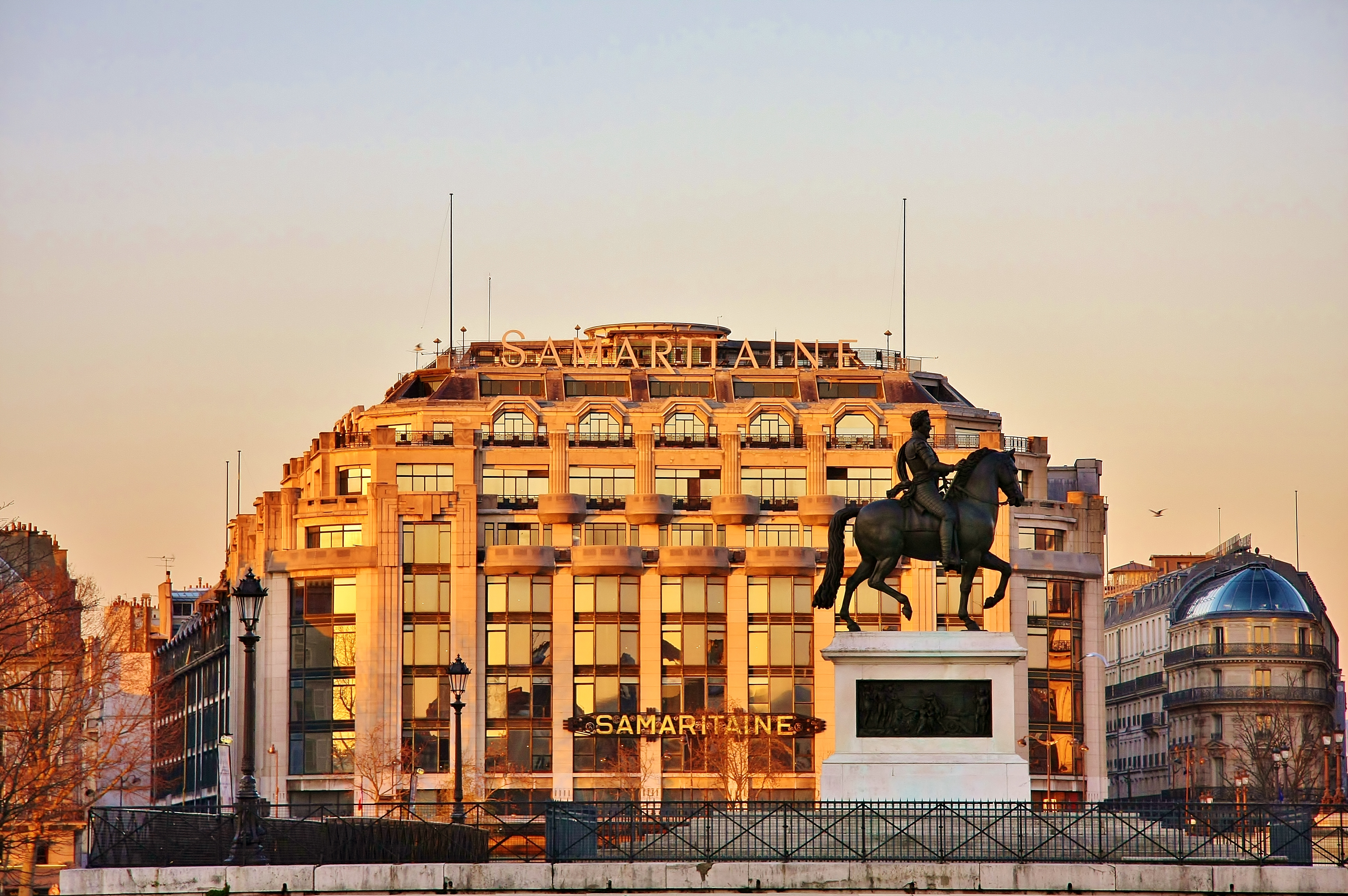 La Samaritaine and Statue of Henri IV